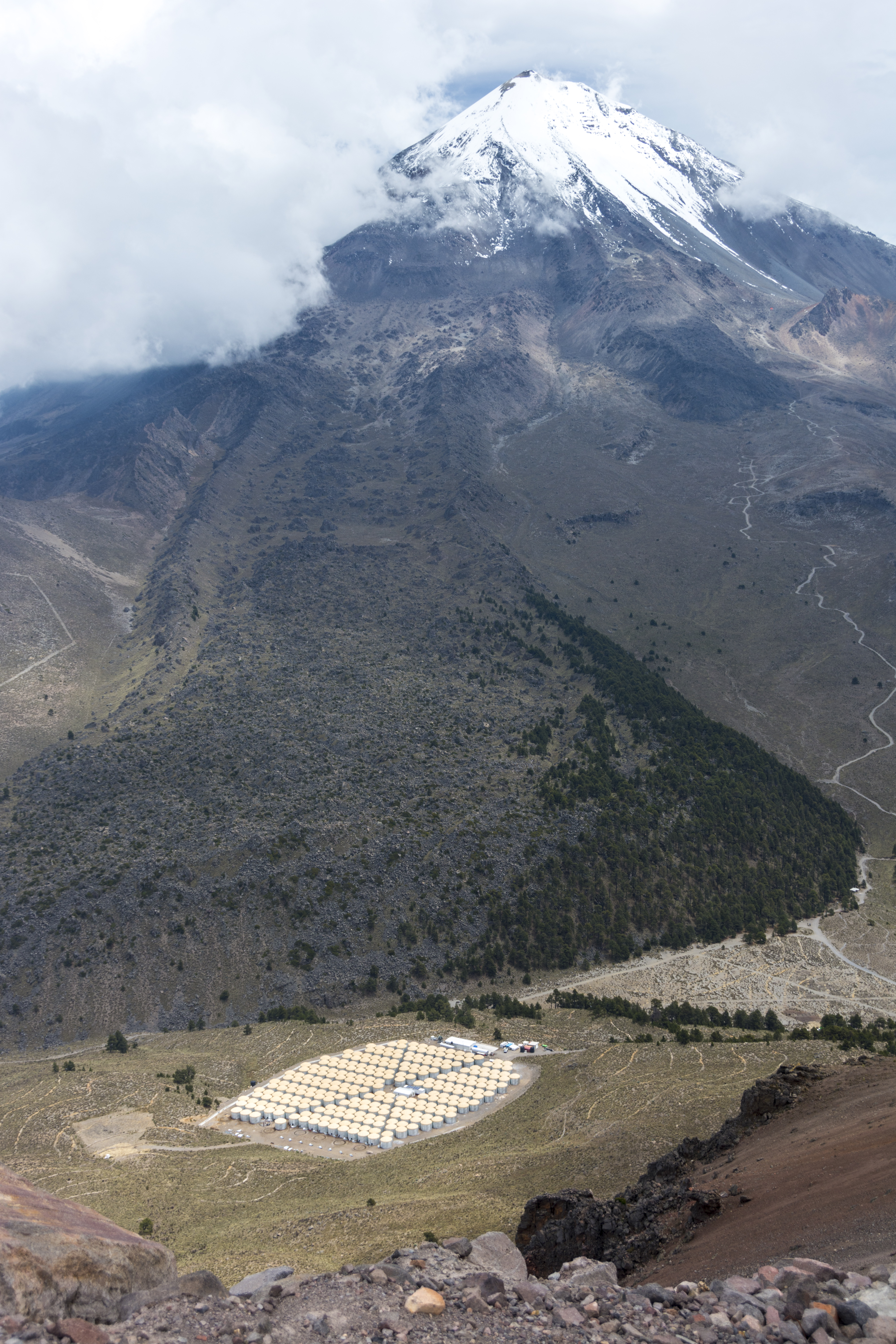 The HAWC detector August 19, 2014